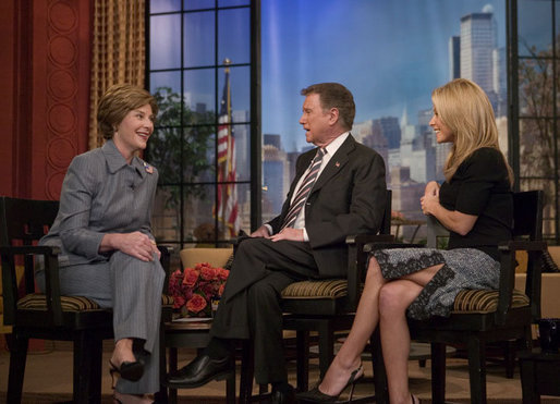 Laura Bush participates in an interview with Regis Philbin and Kelly Ripa during an appearance on the Live with Regis and Kelly show in New York, N.Y., Tuesday, Oct. 19, 2004. White House photo by Joyce Naltchayan